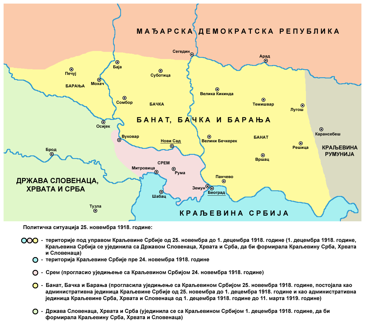 Historical map of Banat, Bačka and Baranja, as well as Syrmia, in 1918 (Serbian language version).